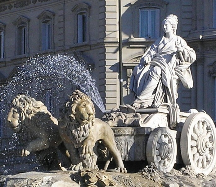 Same as Image:Cibeles con Palacio de Linares al fondo.jpg, but I've cropped the image to focus on Cybele. The original is attributed to Mr. Tickle, the author of the work. QuartierLatin1968 02:09, 28 February 2006 (UTC)